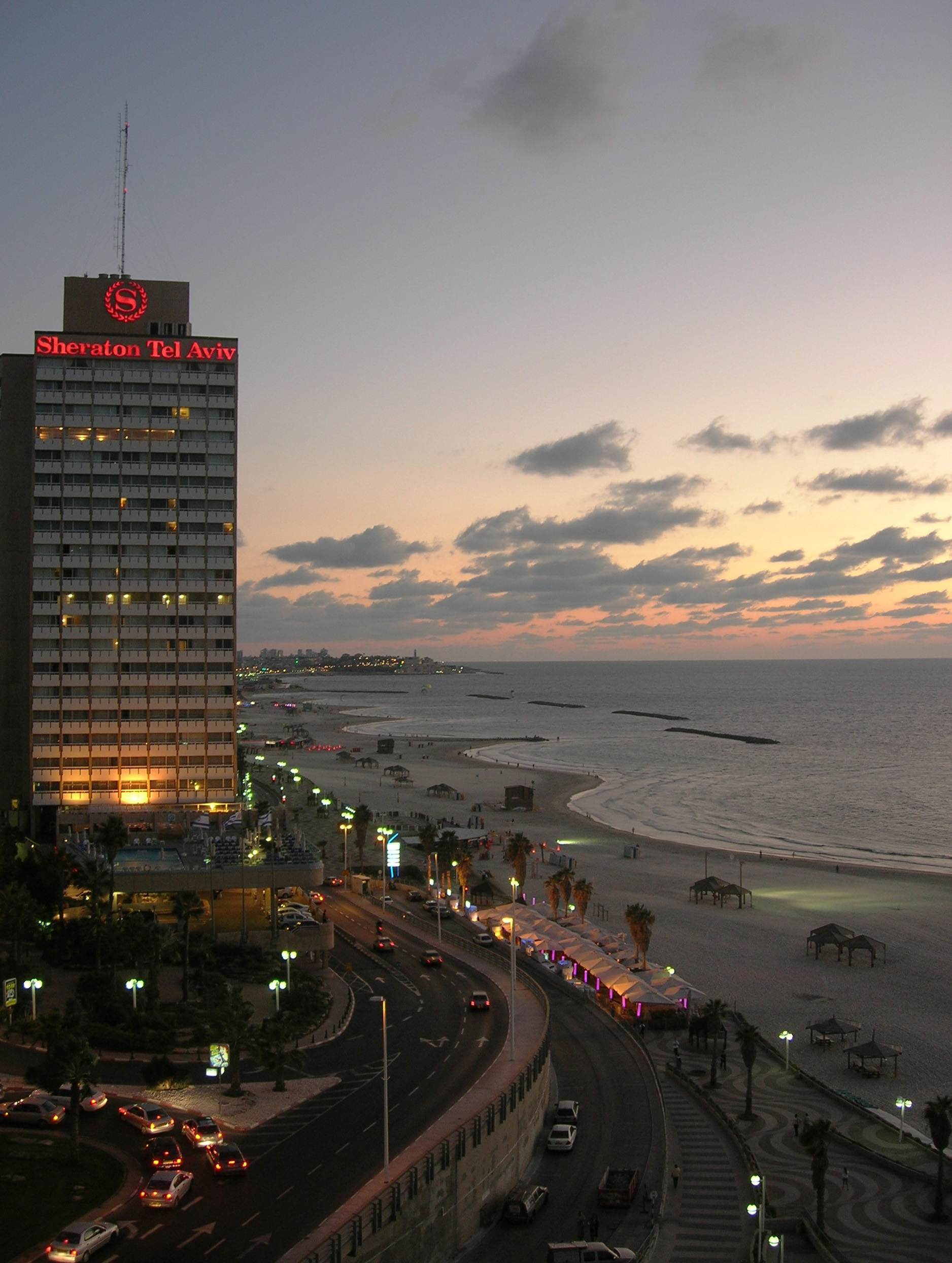 Description =Le bord de mer à Tel Aviv avec Jaffa au fond Source =Photo taken by Remi Jouan Date =Octobre 2006 Author =Remi Jouan